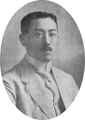 Mr. Shigetaka Abe.